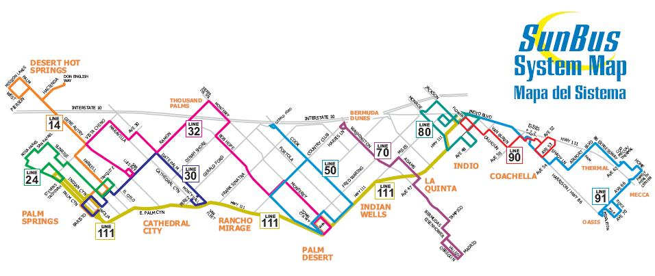 SunLine - Network Map